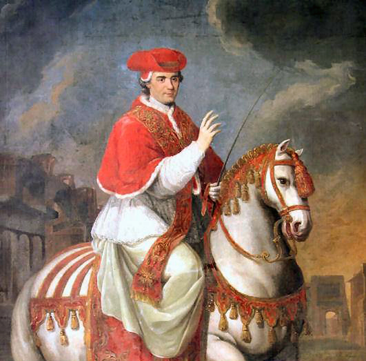 Clement XIV on horseback